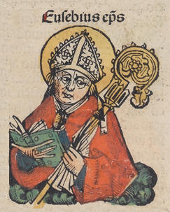 Eusebius of Vercelli. Illustration from the Nuremberg Chronicle